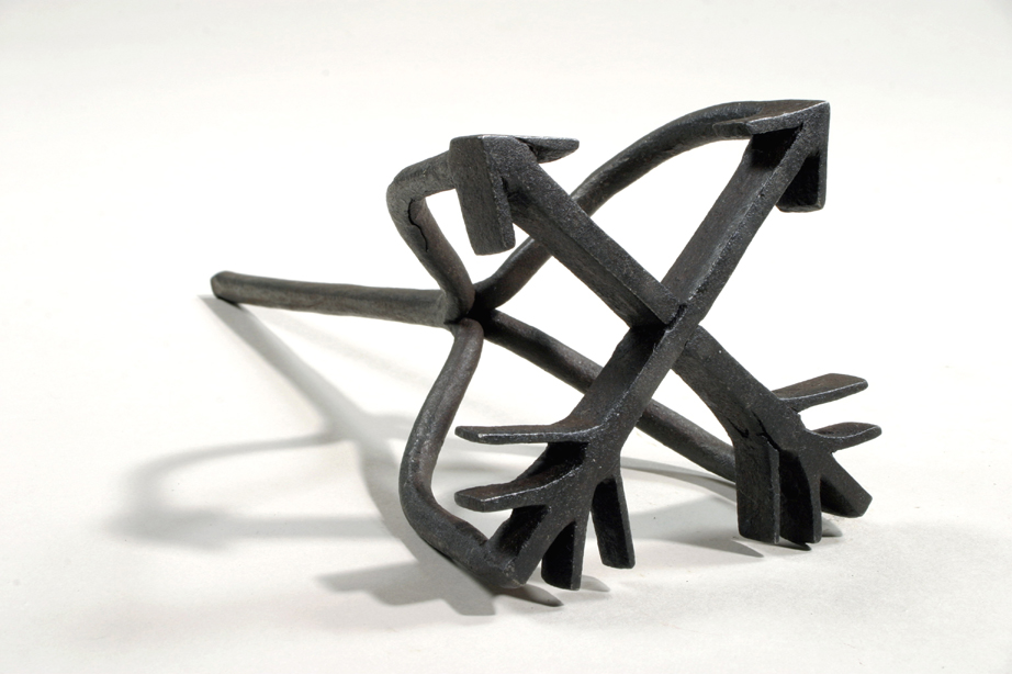 Note: For documentary purposes the original description has been retained. Factual corrections and alternative descriptions are encouraged separately from the original description.Brännjärn Hingstdepå helbild - LRK 24473 Nyckelord: Brännmärkning, Pilar, Boskap, Märke, Brännjärn, Föremålsbild